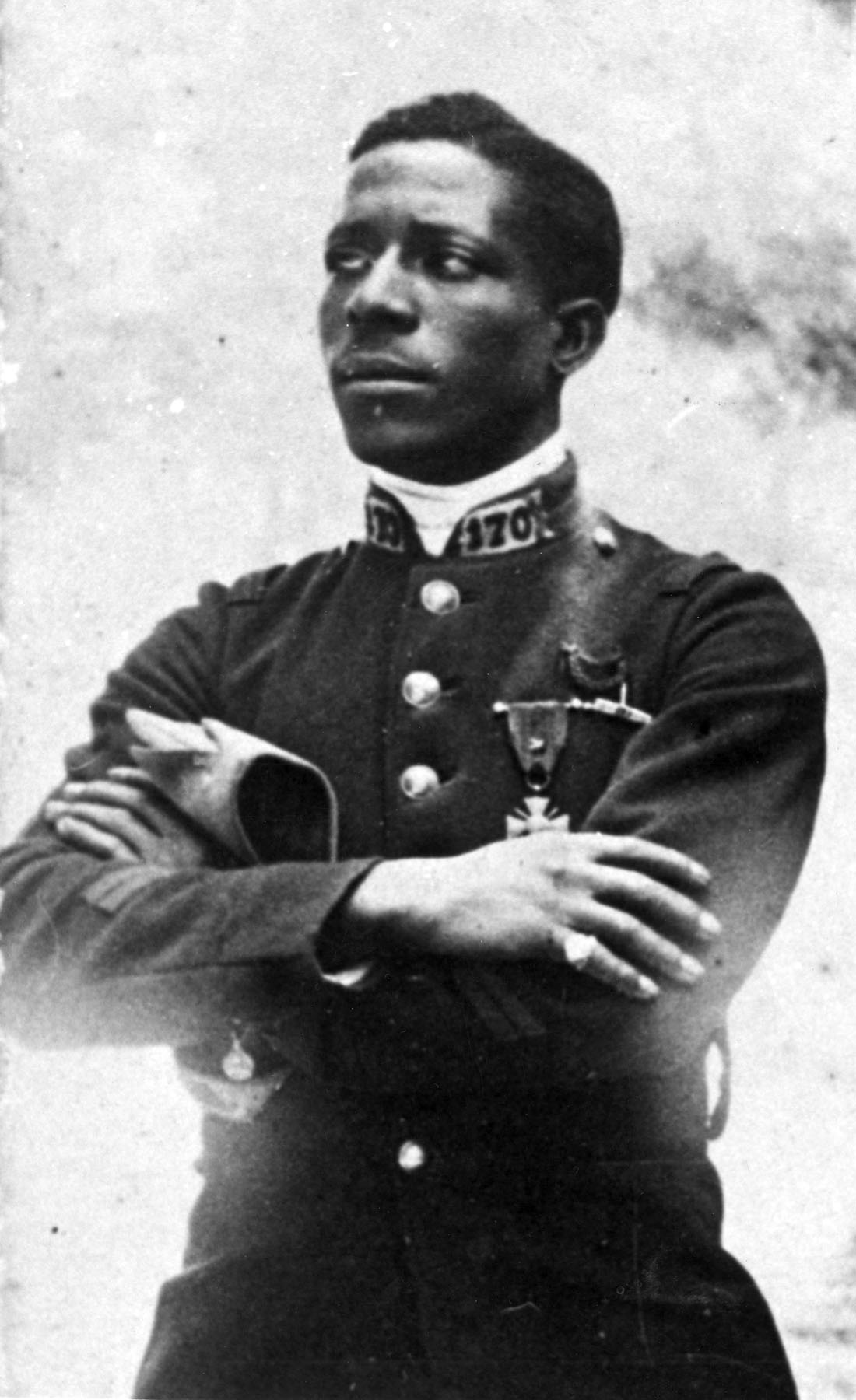 Original caption: Corporal Eugene J. Bullard EARLY YEARS -- Eugene Jacques Bullard, the first African-American combat pilot, was one of 200 Americans who flew for France in World War I. This picture comes from the gallery at this URL